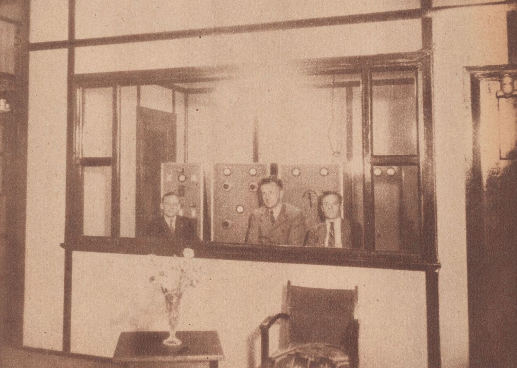 The transmitter. Through the studio window the engineers from left to right are Mr. P. R. Roberts, A.I.R.E., chief, who built and installed the plant. Mr. Trevor Evans, A.I.R.E., and Mr. J. E. Jarvis, B.O.C.P., engineer in charge of the 2BS plant.